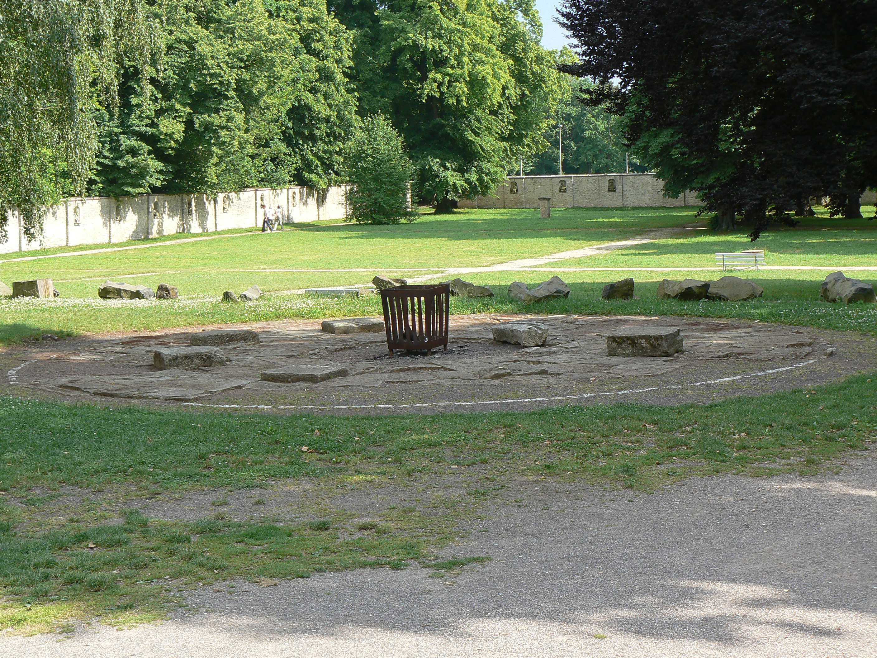 weimarian waterart - spring base plate at the palace garden kromsdorf